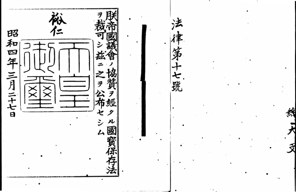 The Shōwa emperor signature and the Privy Seal of Japan on the original script of the Law No. 17 of 1929 enacting the Law for preservation of national treasures (Imperial Ordinance No. 209).